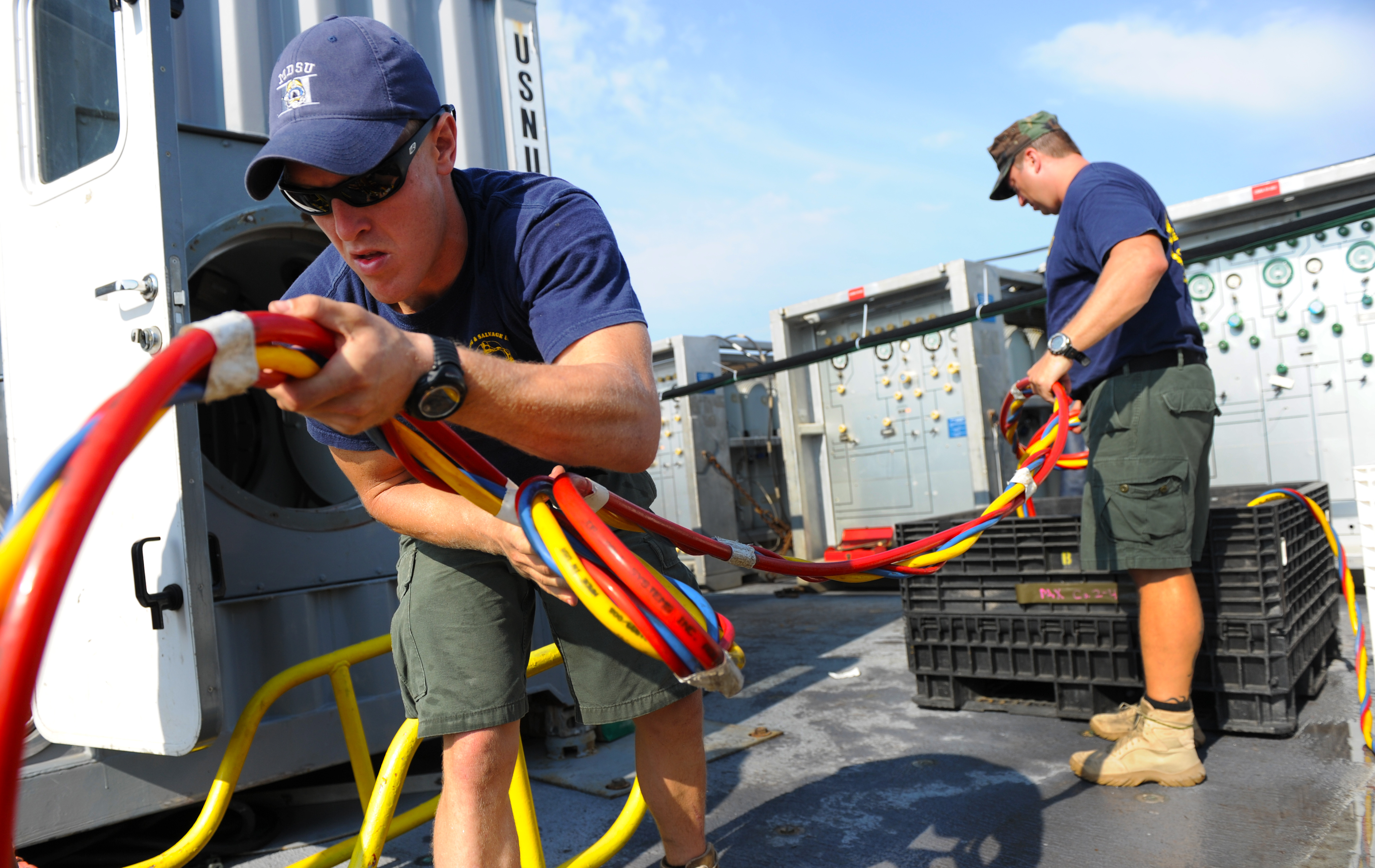 SOLOMON ISLAND, Md. (July 12, 2010) Navy Diver 1st Class Joel Sharp, left, assigned to Mobile Diving and Salvage Unit (MDSU) 2, gives slack to the umbilical cable of divers conducting a mixed-gas dive from the Military Sealift Command fleet ocean tug USNS Apache (T-ATF 172). (U.S. Navy photo by Mass Communication Specialist 1st Class Jayme Pastoric/Released)